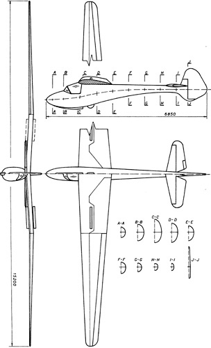 Yugoslav Glider "Soko"